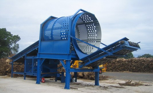 3.5 metre diameter Static Trommel used for cleaning BIOMASS material (tree roots). Used at the Lockerbie, Scotland wood fired Power Station.